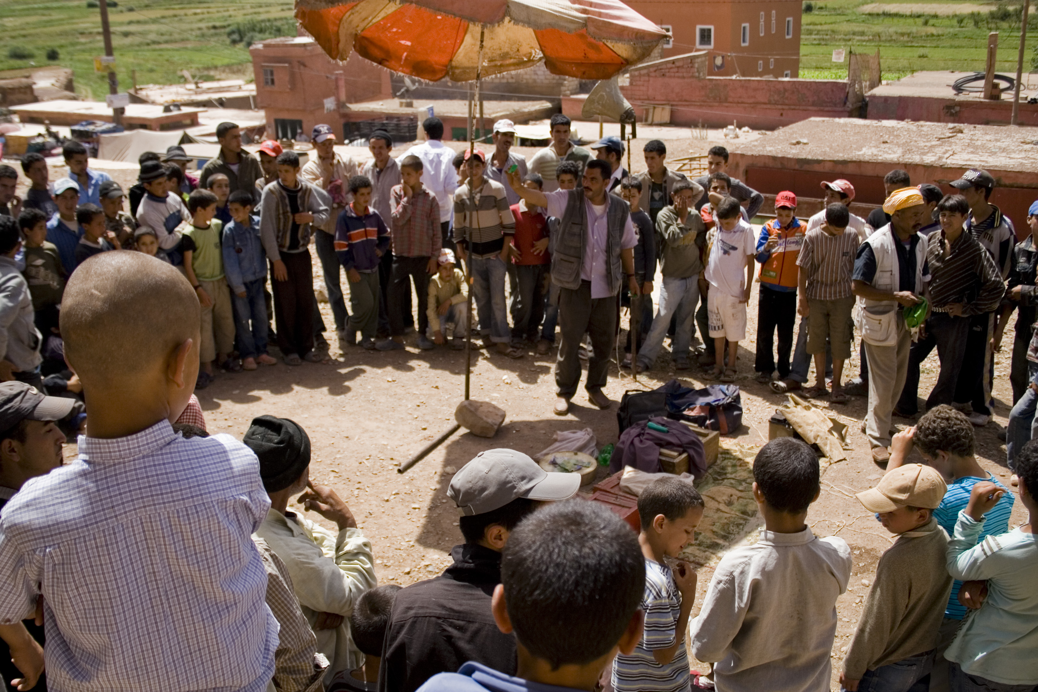 A quack draws a crowd on the market in Tabant, Aït Bouguemez, central Morocco.